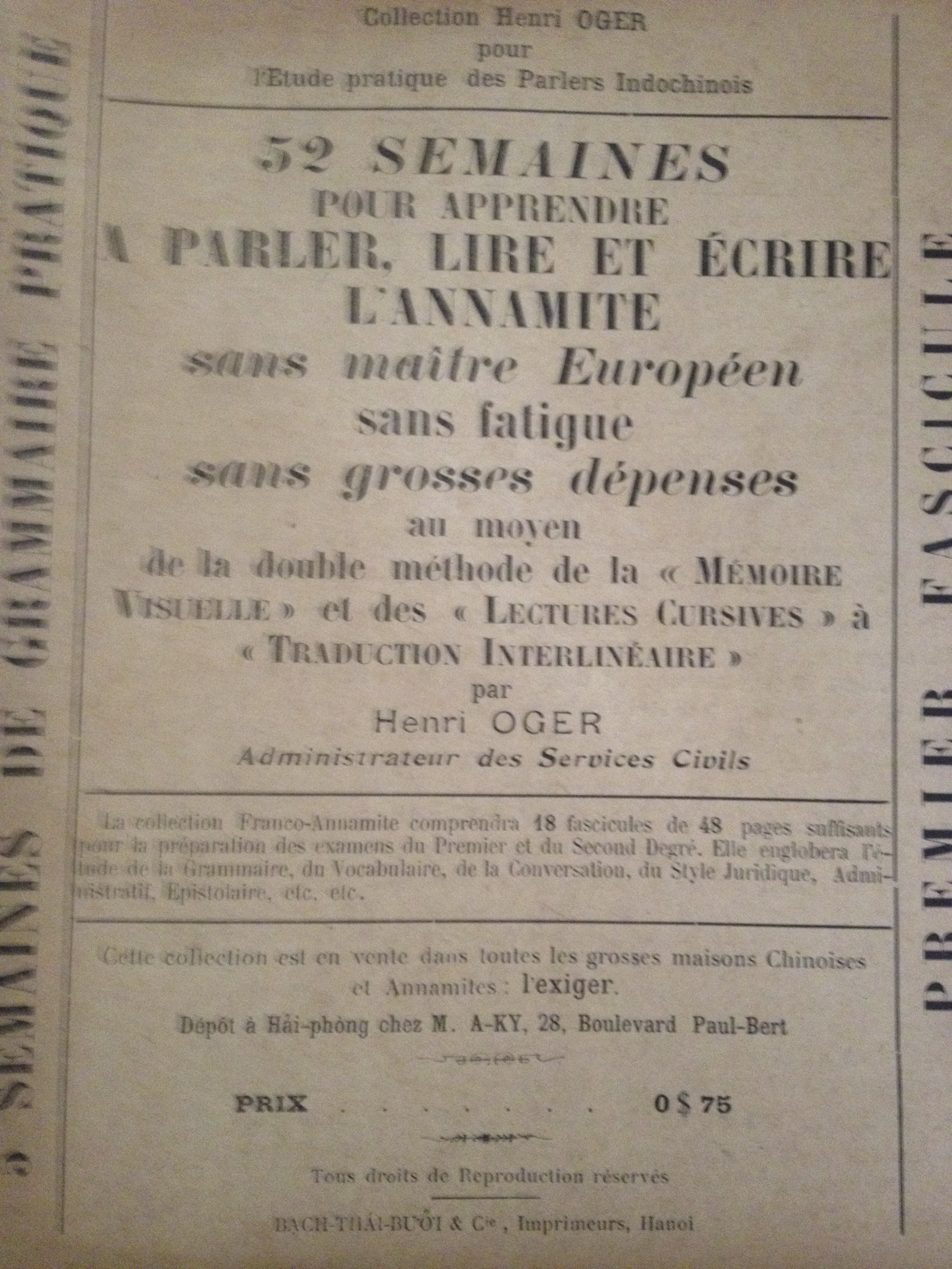 Teach yourself Vietnamese in 52 weeks